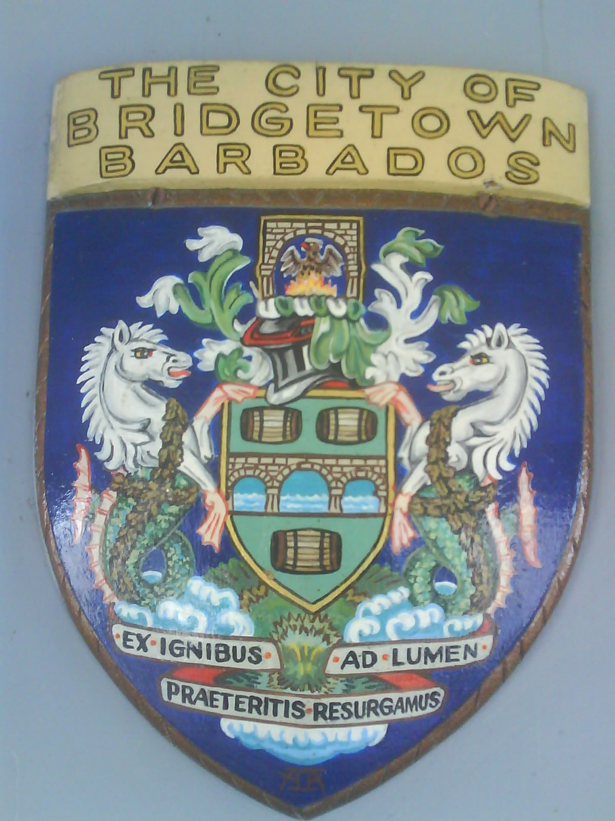 The armorial bearing of the City of Bridgetown. (Located at the former Law Courts building, Coleridge Street.)